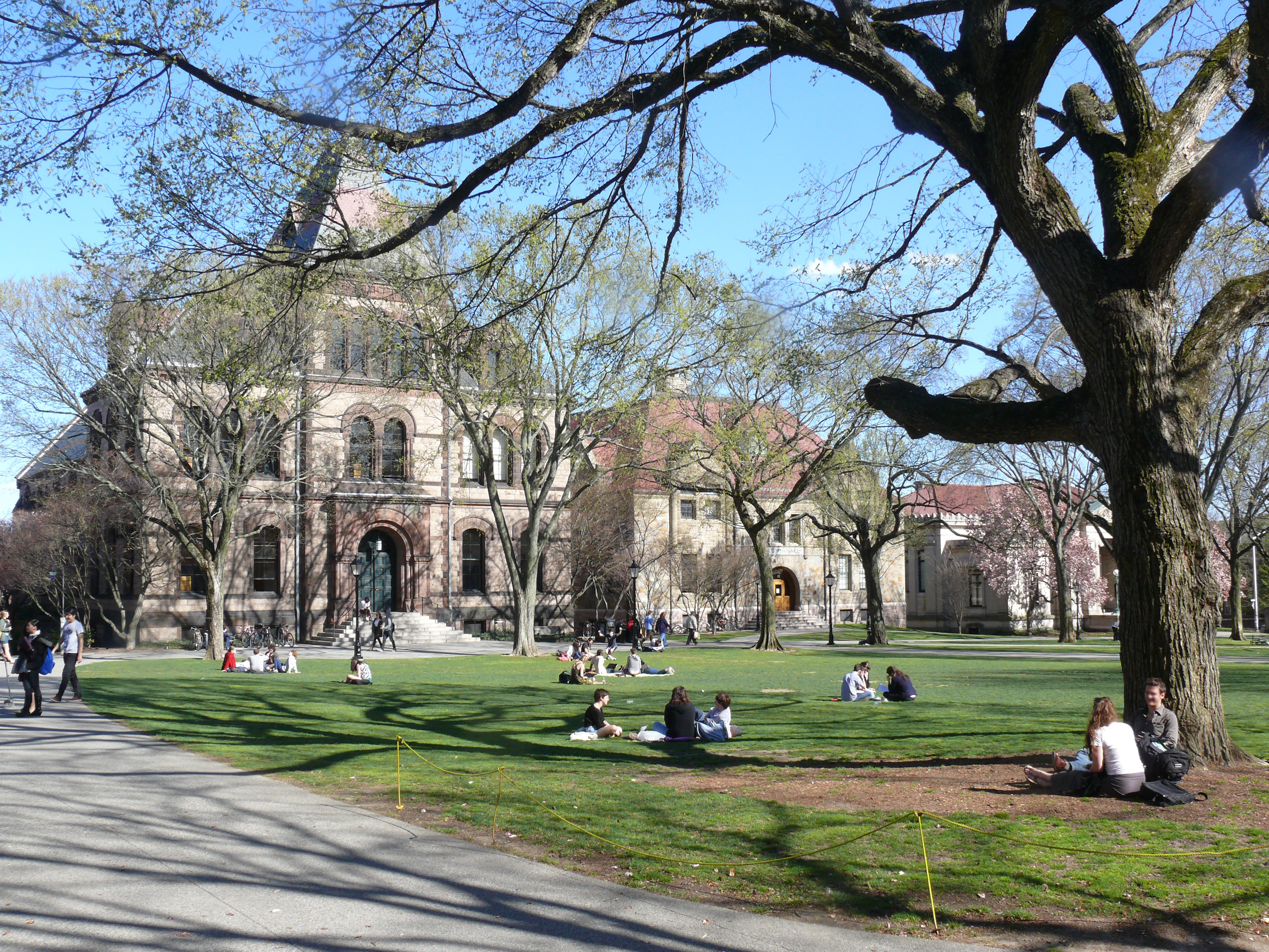 Sayles Hall on Brown University's Campus in Providence, RI. Sayles Hall was dedicated on June 4, 1881, a memorial to William C. Sayles donated by his father, William F. Sayles.